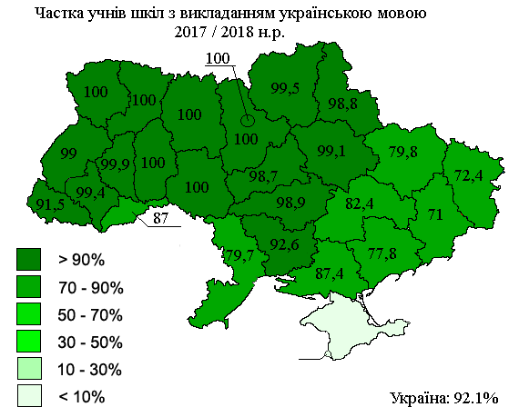 Share of students of schools with ukrainian language of instruction, 2017/2018.